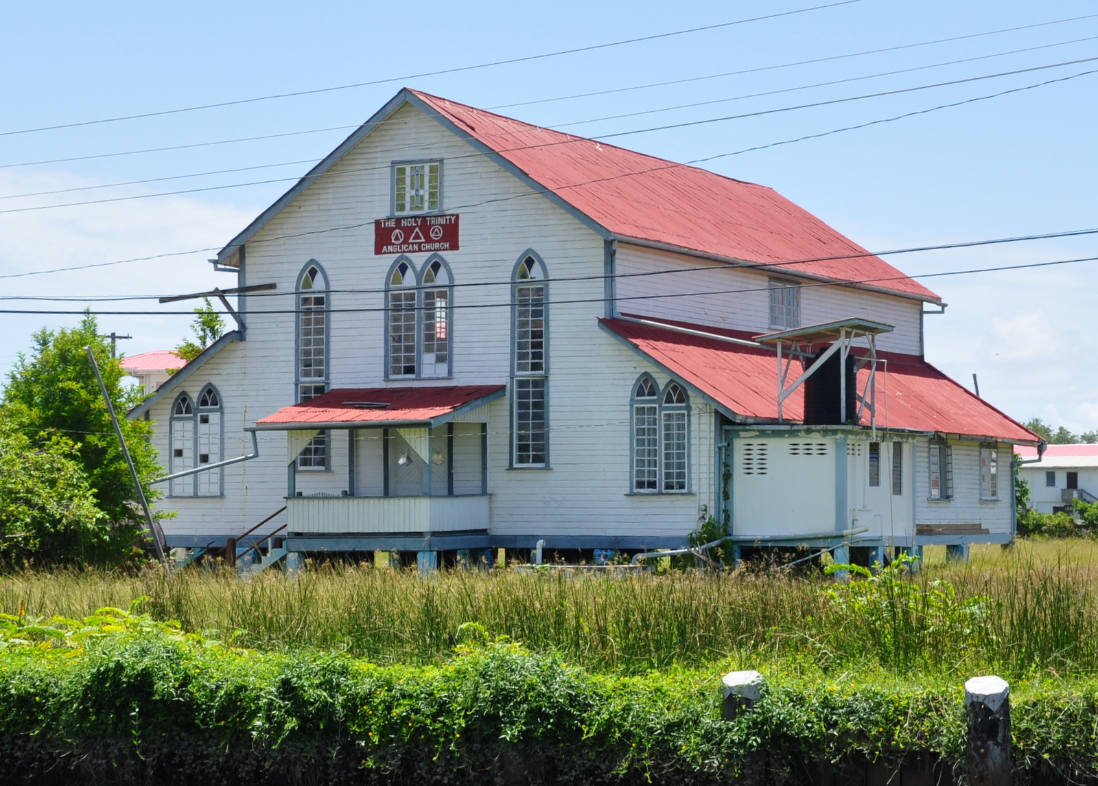 HOLY TRINITY ANGLICAN CHURCIL ANNA REGINA